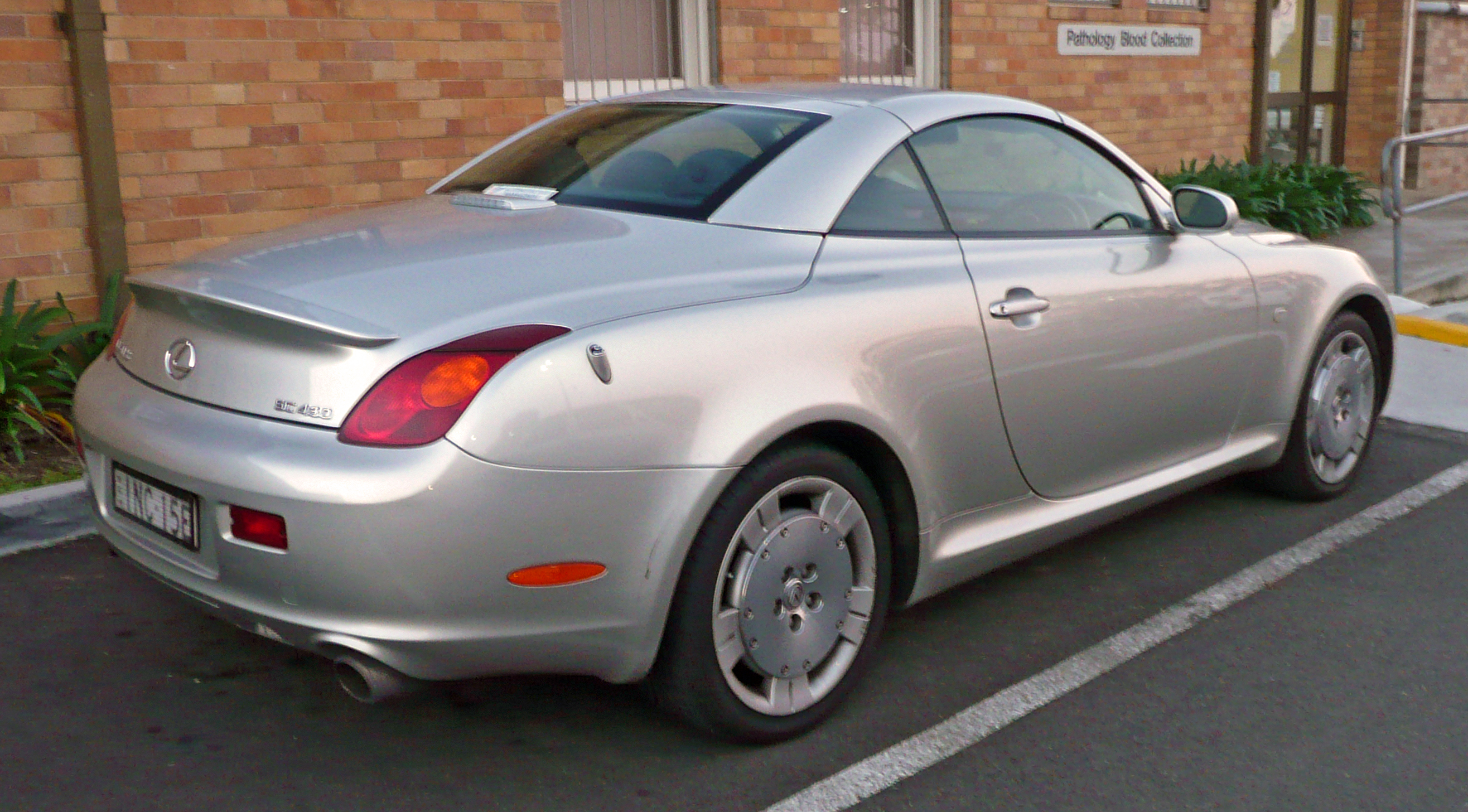 2001–2005 Lexus SC 430 (UZZ40R) convertible. Photographed in Caringbah, New South Wales, Australia.